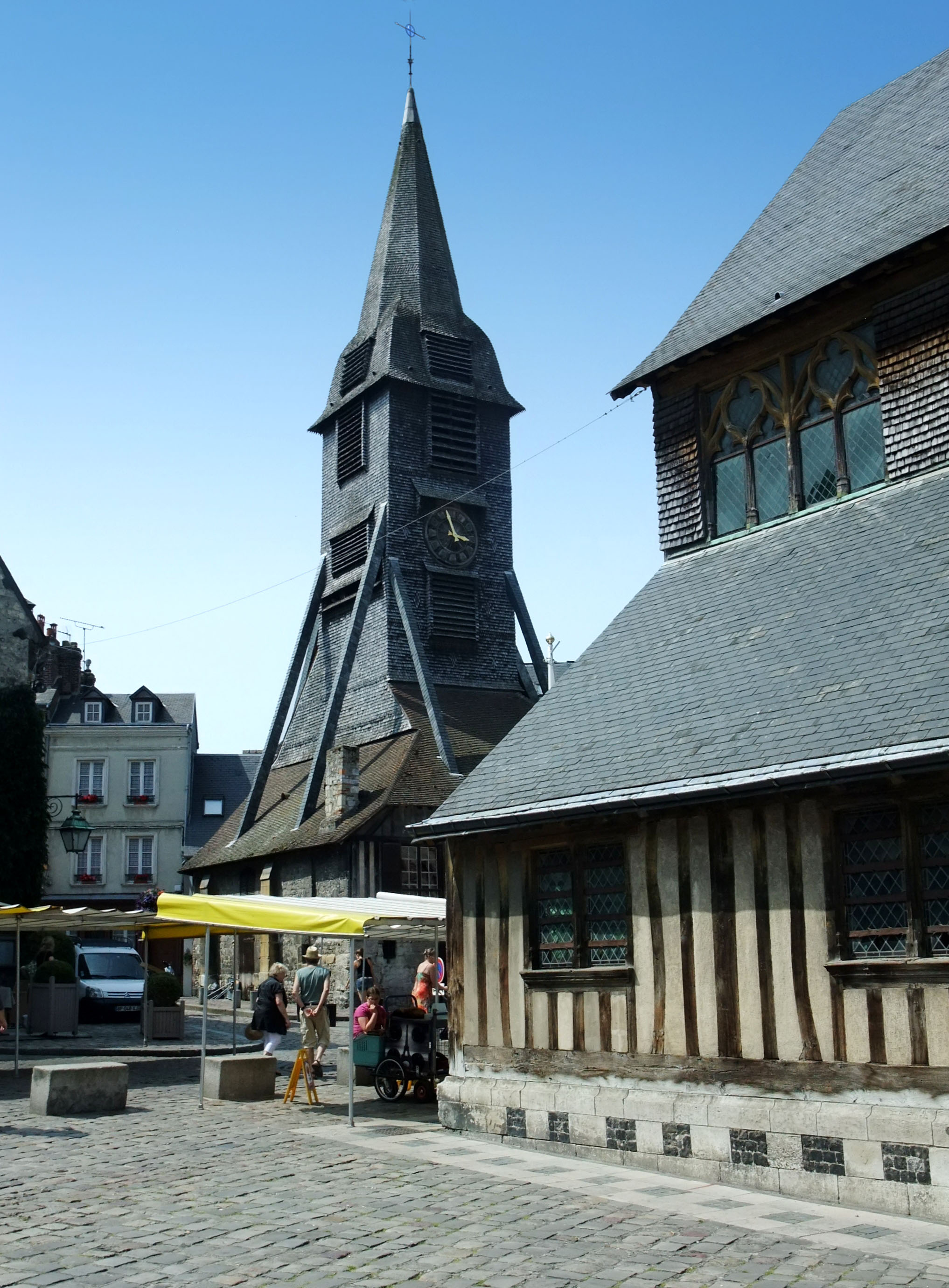 Church Sainte Catherine in Honfleur, France